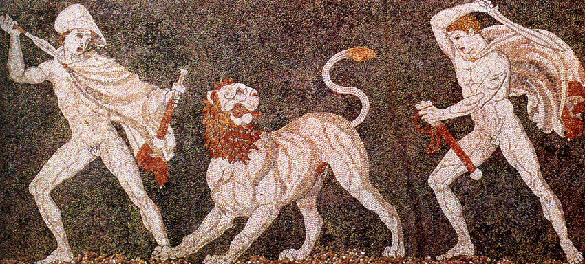 Lion hunt. Mosaic from Pella (ancient Macedonia), late 4th century BC, depicting Alexander the Great and Craterus. Housed in the Pella Museum. From Olga Palagia (2000). "Hephaestion’s Pyre and the Royal Hunt of Alexander," in A.B. Bosworth and E.J. Baynham (eds), Alexander the Great in Fact and Fiction. Oxford & New York: Oxford University Press. ISBN 9780198152873, p. 185: “A floor mosaic of the late fourth century, excavated in one of the dining rooms of the 'House of Dionysus', a palatial mansion at Pella, shows two Macedonians hunting a lion on foot, using spear and sword (Fig. 8). They are both heroically nude but for a billowing chlamys, and shown as equals, with the king on the left being differentiated by his kausia. The egalitarian spirit of the mosaic reflects the mores of the Macedonian nobles: not for them the mounted king in mixed Oriental dress...This mosaic has long been thought to represent Craterus coming to Alexander's rescue...”